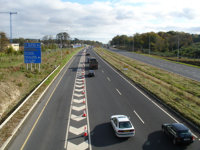 M50 Southbound